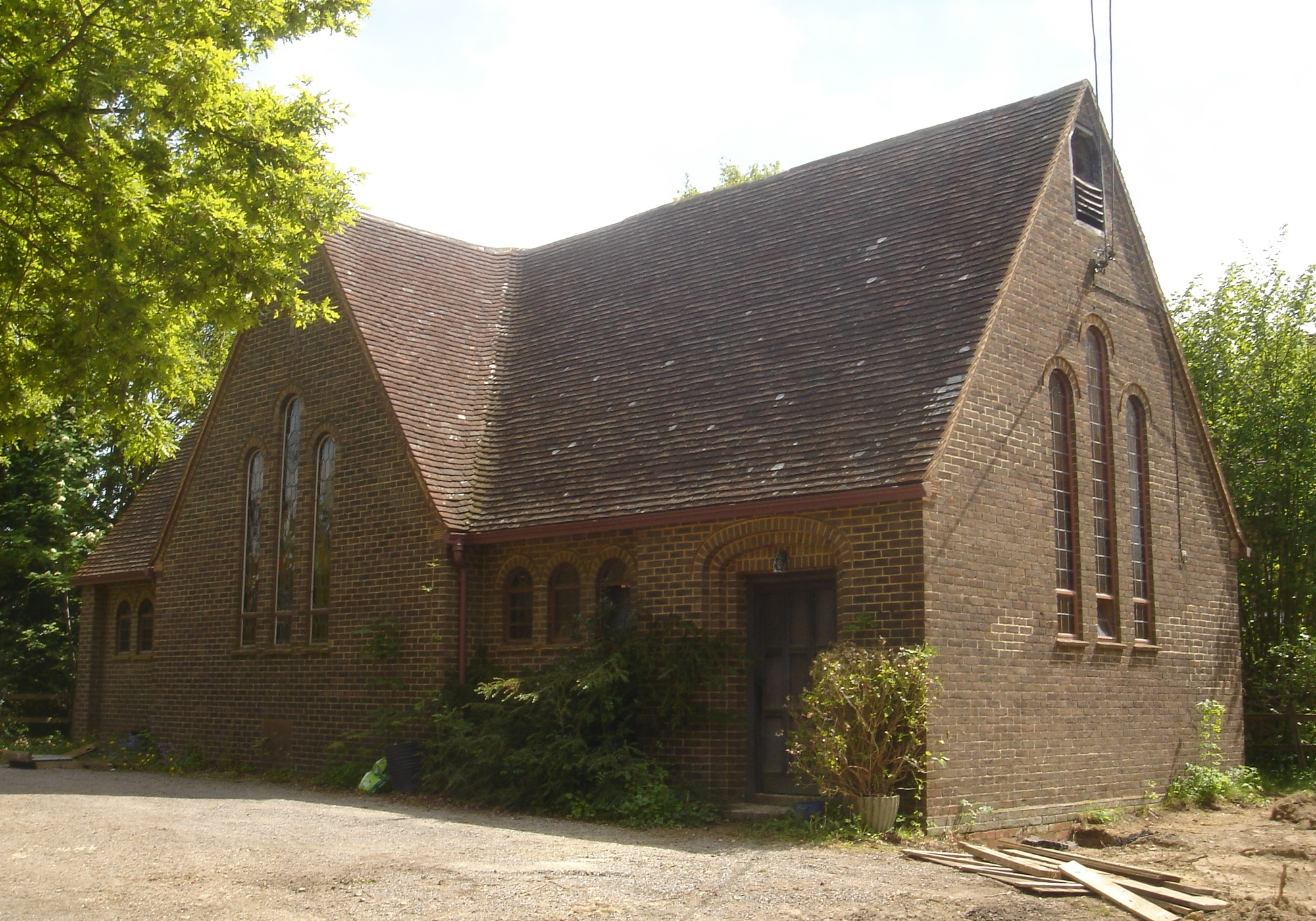 Former church of St Andrew, Warninglid, West Sussex, England. It was part of the Church of England parish of Slaugham.